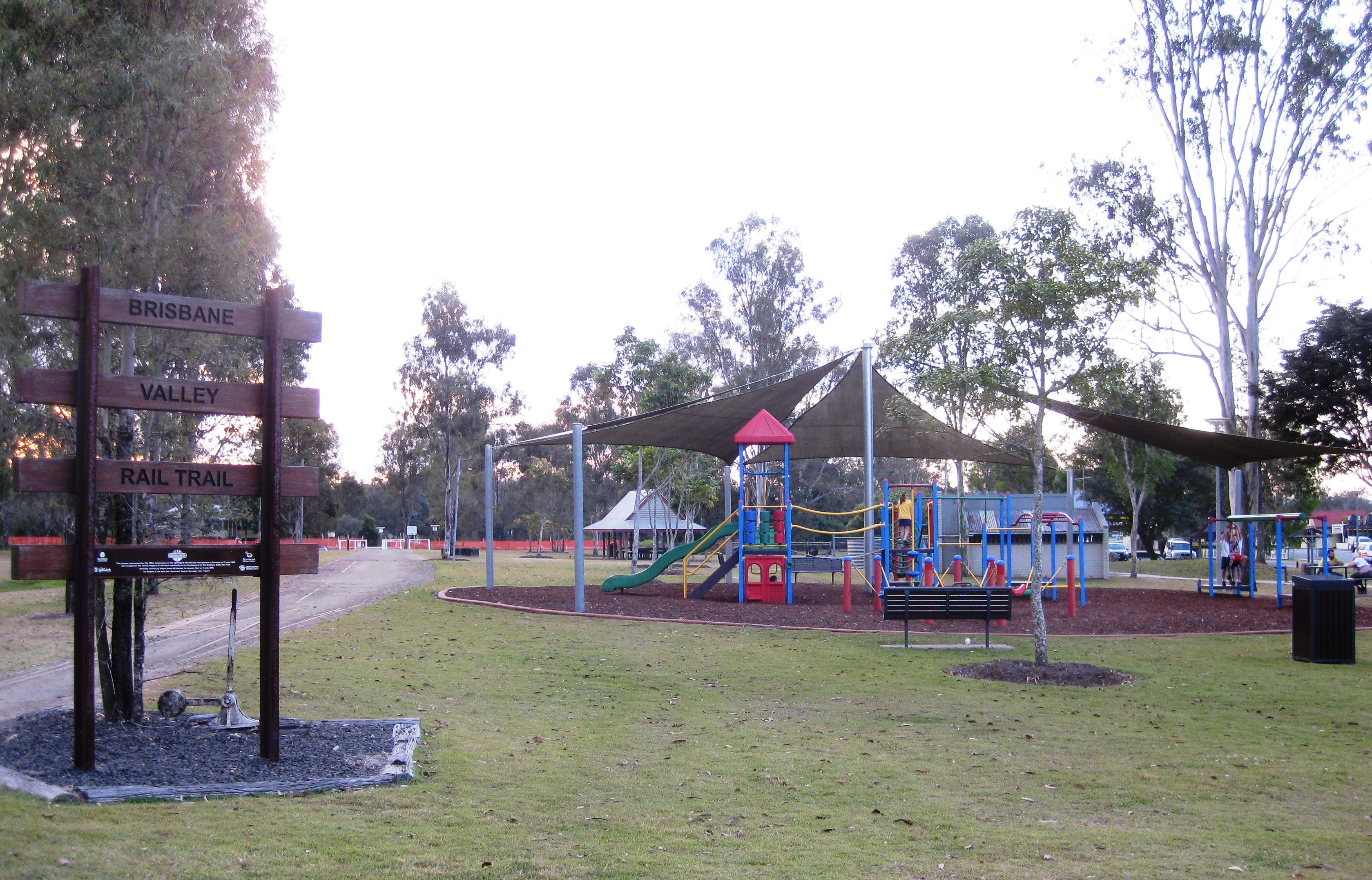 The Fernvale Memorial Park stands on the site of the old railway goods yards in the centre of Fernvale, adjacent to the Fernvale Futures Centre, and offers a children’s playground, picnic tables, car parking, toilets, and access to the Brisbane Valley Rail Trail. The park was upgraded to its present standard in 2006. Access point to the Brisbane Valley Rail Trail in the foreground.